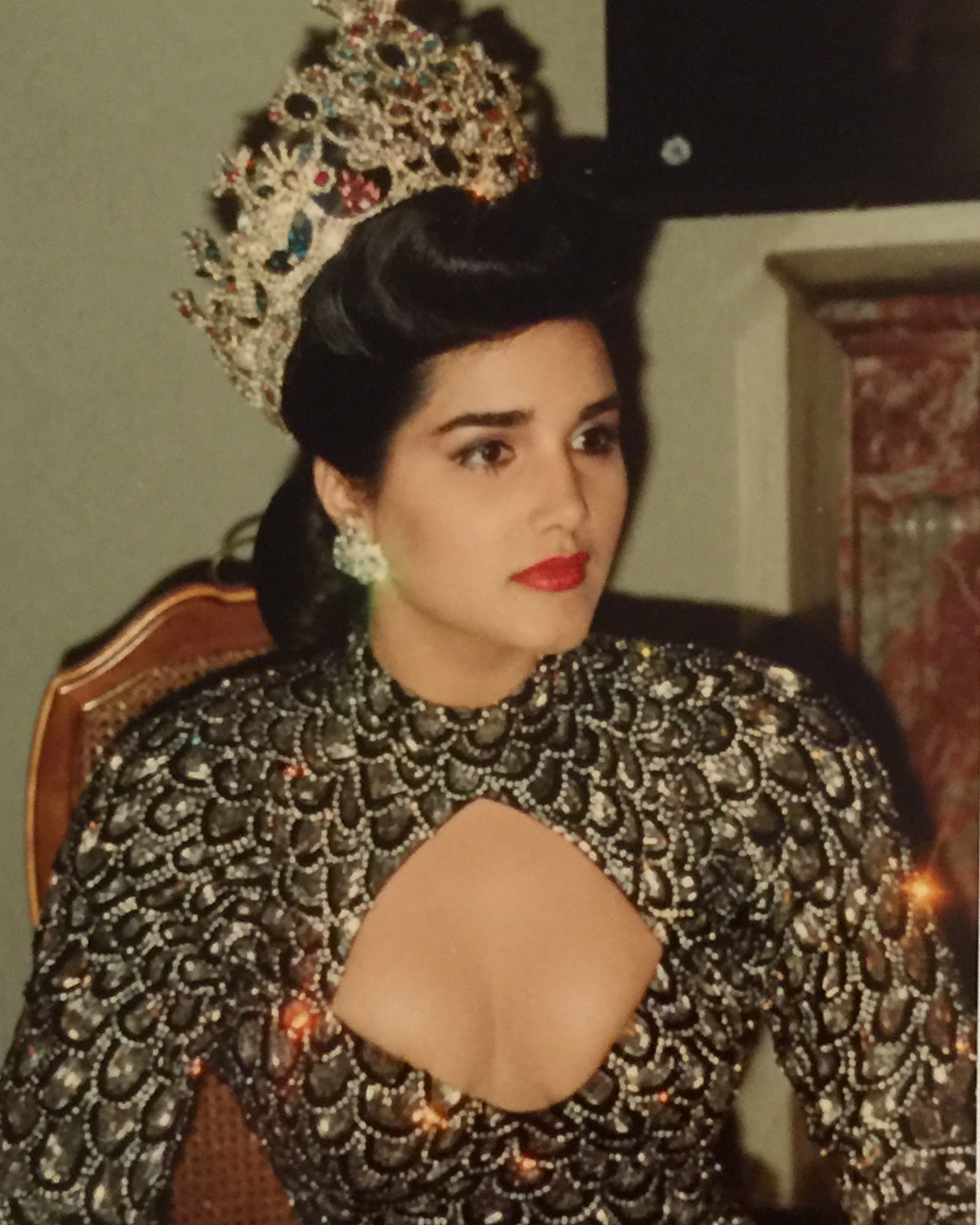 Miss Dominican Republic 1990 Miss Hispanidad International 1990